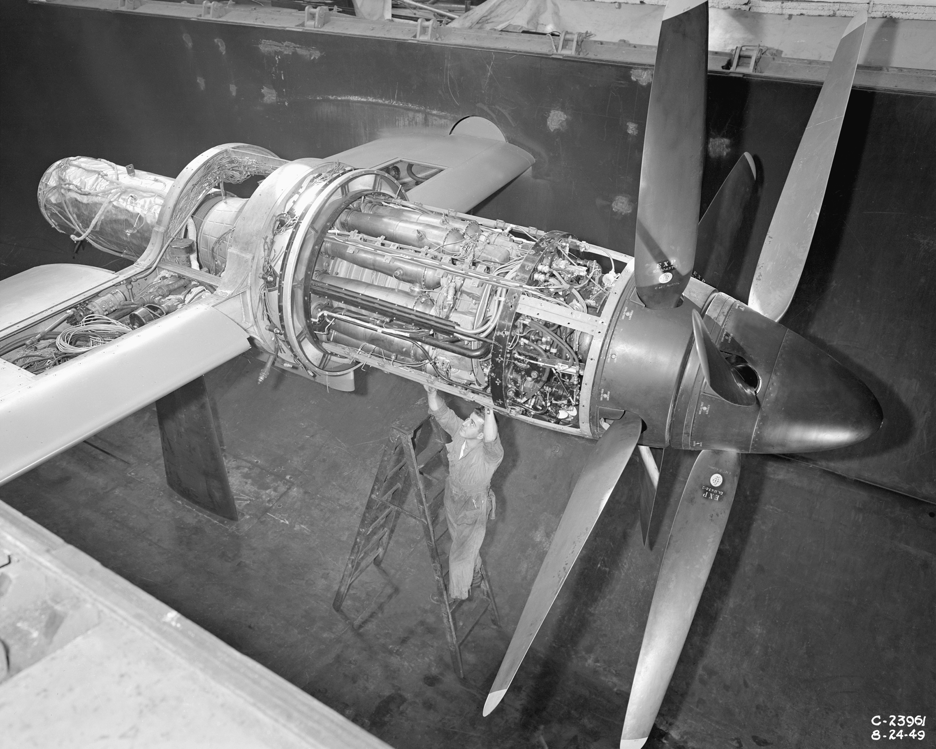 An engine mechanic checks instrumentation prior to an investigation of engine operating characteristics and thrust control of a large turboprop engine with counter-rotating propellers under high-altitude flight conditions in the 20-foot-dianieter test section of the Altitude Wind Tunnel at the Lewis Flight Propulsion Laboratory of the National Advisory Committee for Aeronautics, Cleveland, Ohio, now known as the John H. Glenn Research Center at Lewis Field.